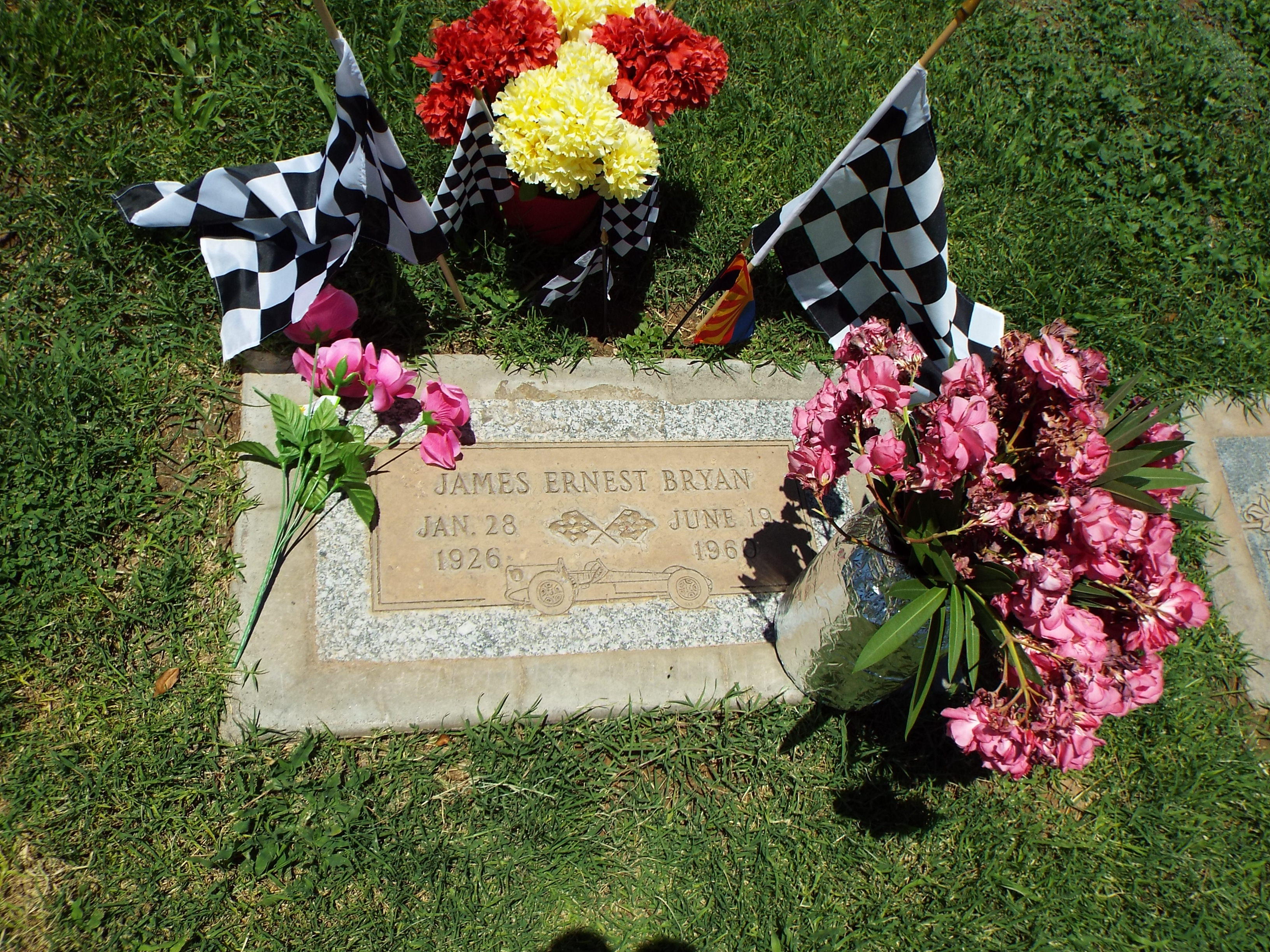 Grave site of James Ernest Bryan (1926-1960). Bryan was a racecar driver who won the 1958 Indianapolis 500. He is buried in Greenwood Memory Lawn Cemetery in Phoenix, Az. [1]